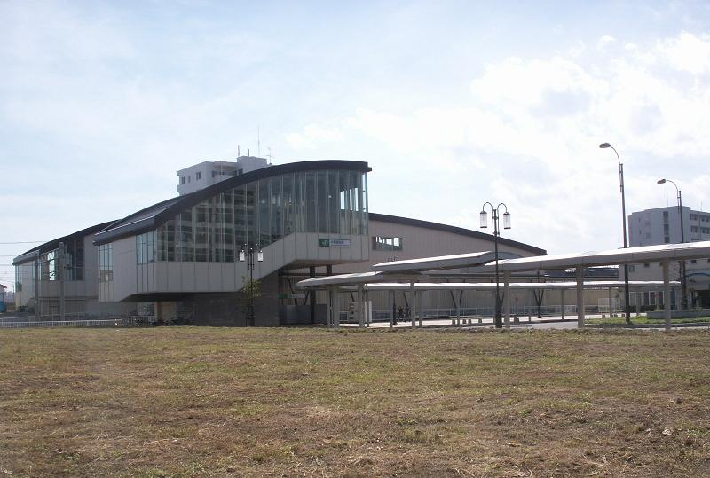 Kzurushinden Station, Sendai, Miyagi, Japan